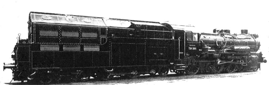 Combined Reciprocating & Turbine-driven Locomotive, German State Railways Photo: Locomotive Publishing Co. Henschel T38-3255 of 1927[1] ↑ German Steam Turbine Locomotives